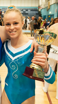 Gagana Samoa: Jonna Adlerteg, swedish artistic gymnastics.